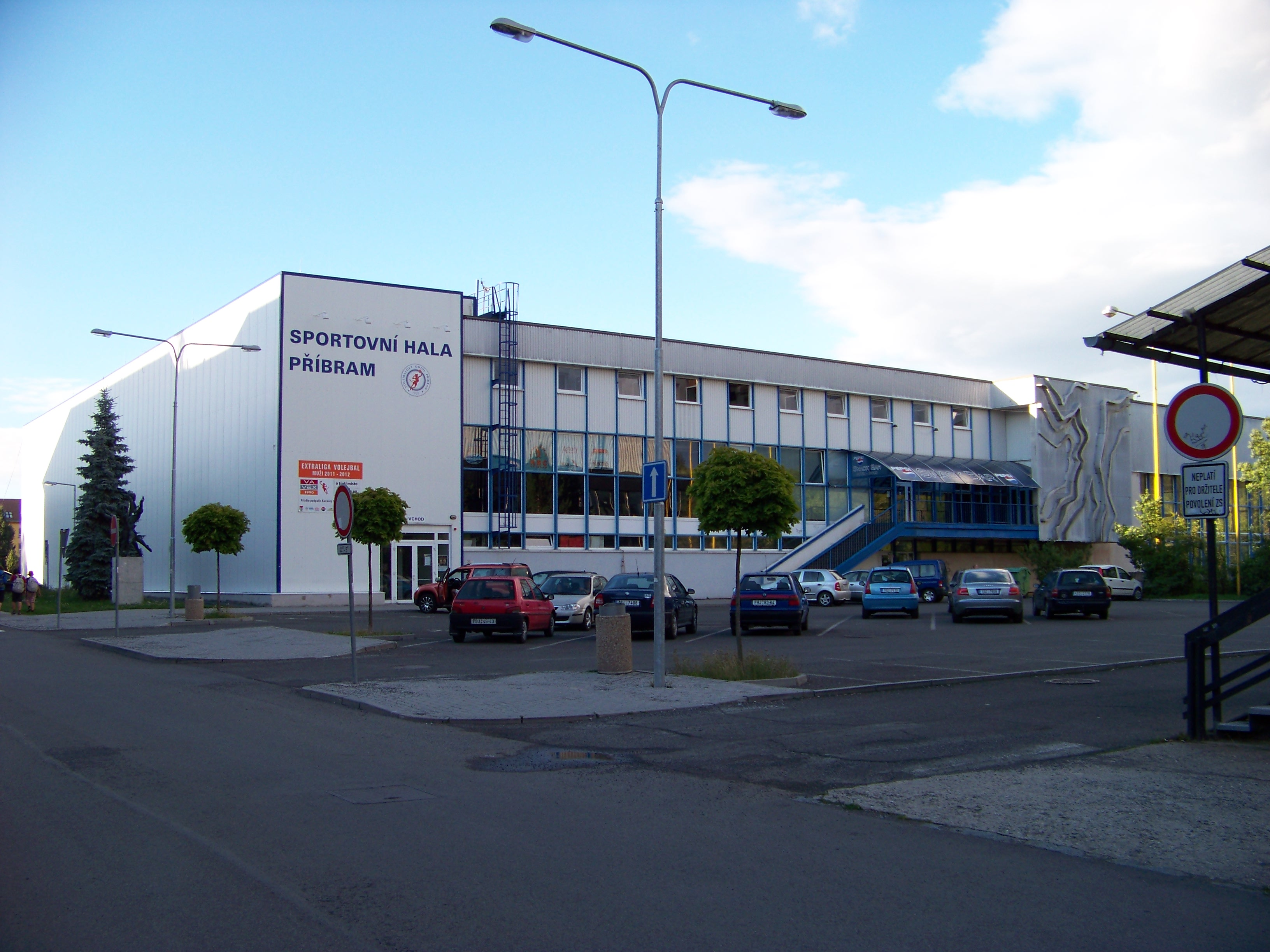 Příbram VII, Příbram District, Central Bohemian Region, the Czech Republic. Legionářů street, a sports hall. - OpenStreetMap(Info)